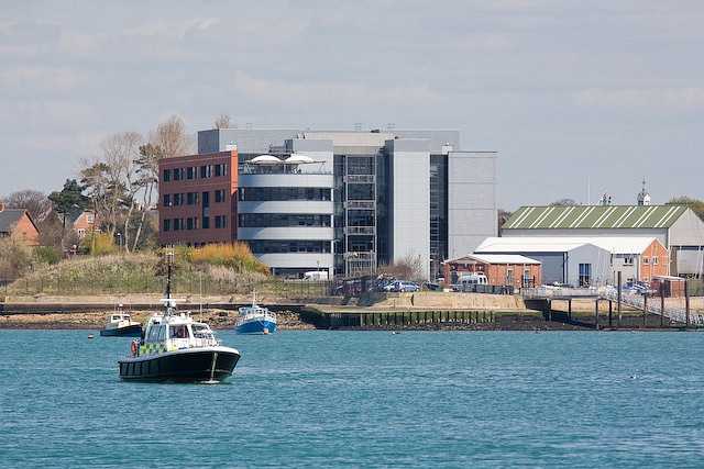 Royal Navy Fleet Headquarters, Whale Island, Portsmouth Opened on Trafalgar Day 2004 by Princess Anne, this new building houses the Royal Navy's Fleet Headquarters staff, transferred from their previous home at Northwood.